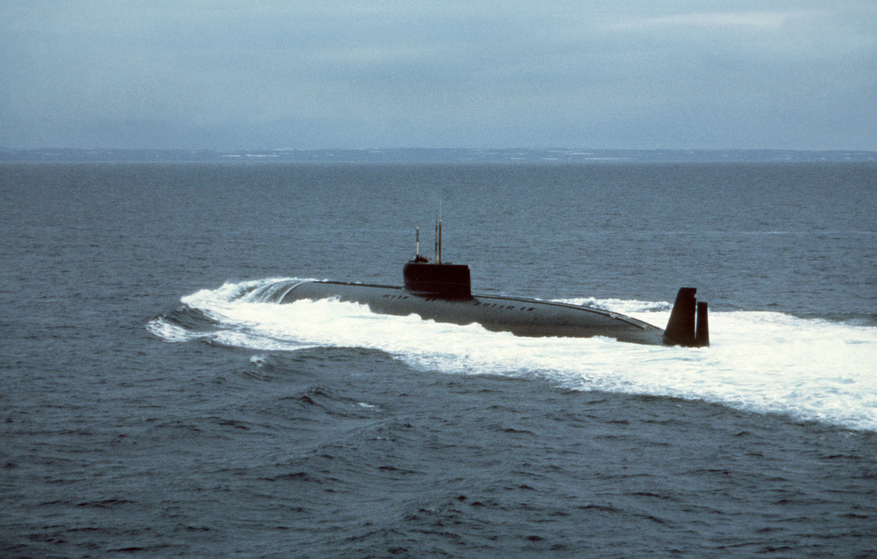 A port quarter view of a Soviet Papa class nuclear-powered cruise missile submarine (SSGN) underway.